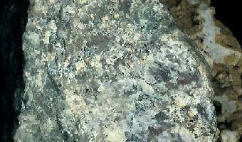 Upper Paleozoic Arkose, Špania Dolina, Starohorské vrchy Mts., Slovakia.